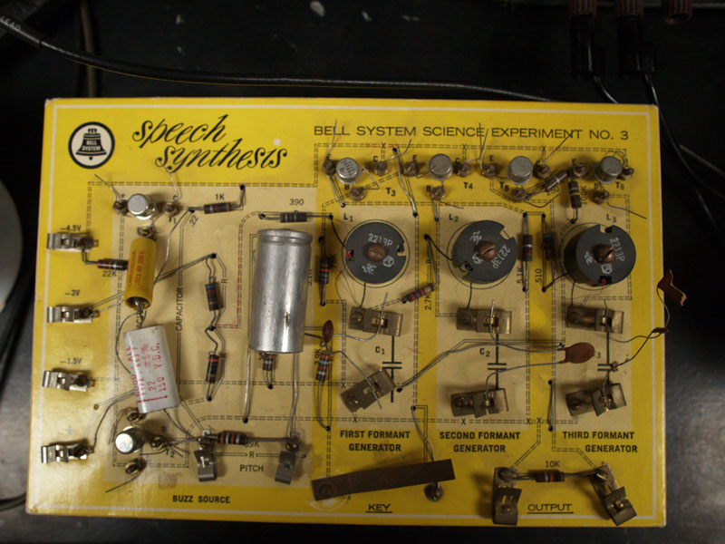 This is a Bell System speech synthesis kit. I have no idea how this works or anything, but it looks like it's been sitting on this counter for 25 years. Electronic Vowel Synthesizer Speech Synthesis - An Experiment In Electronic Speech Production (Bell System Science Experiment No.3)[1], Bell Telephone Laboratories, 1963, pages 78–96, 119–131 See also Bell Labs Science Kits (Speech Synthesis). Bell System Memorial . — entire contents in a box of Bell Labs Speech Synthesis kit.